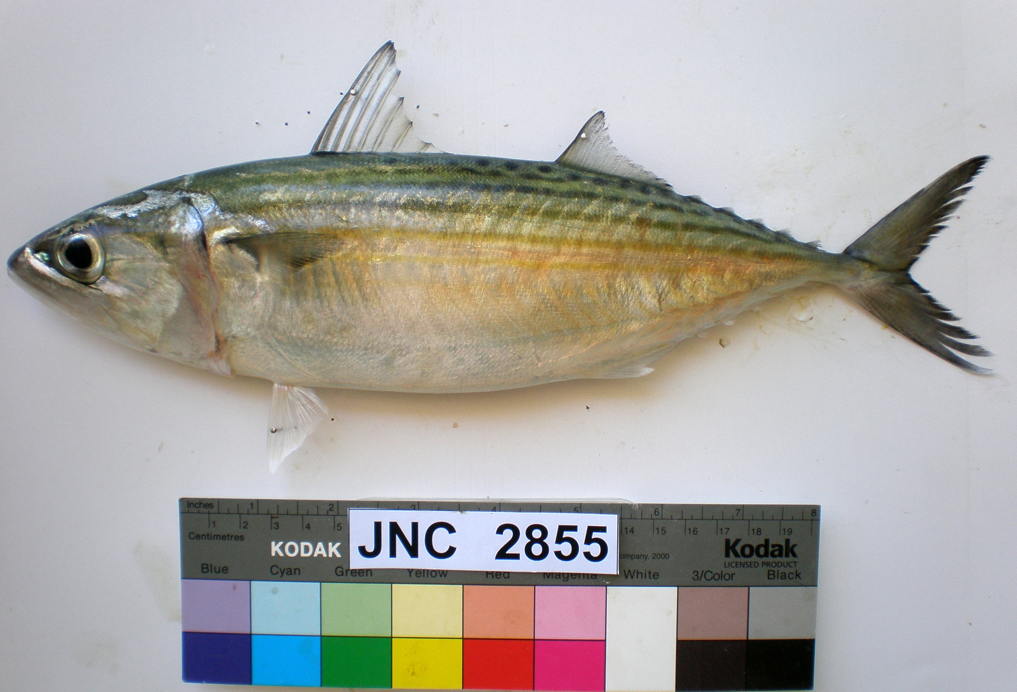 Rastrelliger kanagurta. From fishmarket, Nouméa, New Caledonia.